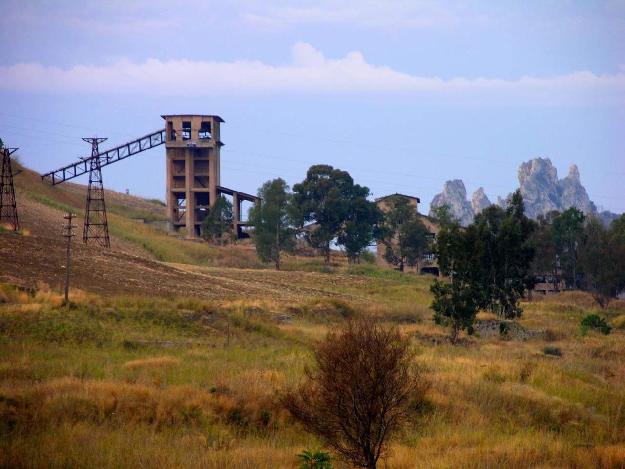 Trabia Tallarita mine